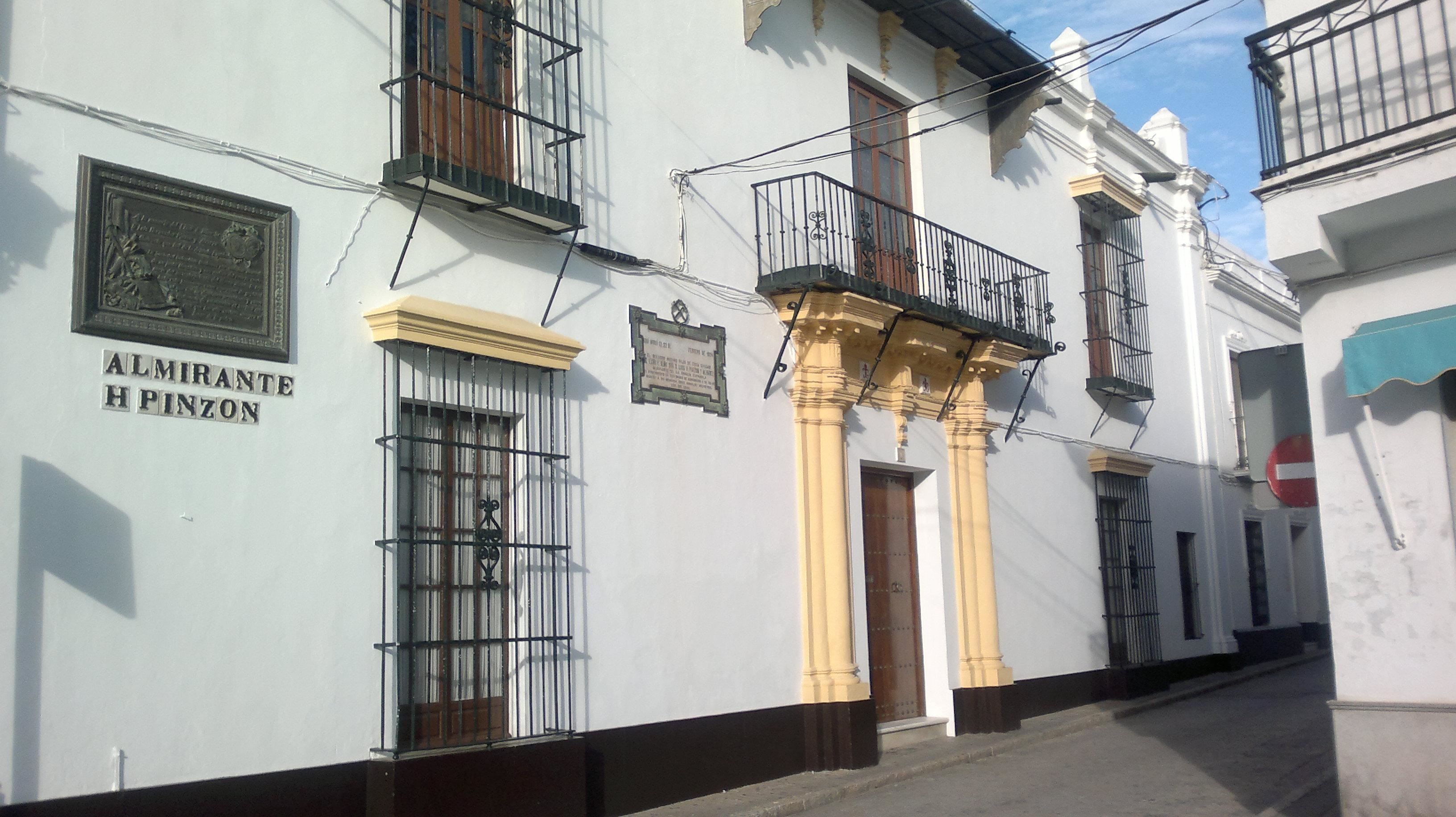 Fachada de la casa de la familia Hernández-Pinzón. Entre ellos del Almirante Luis.